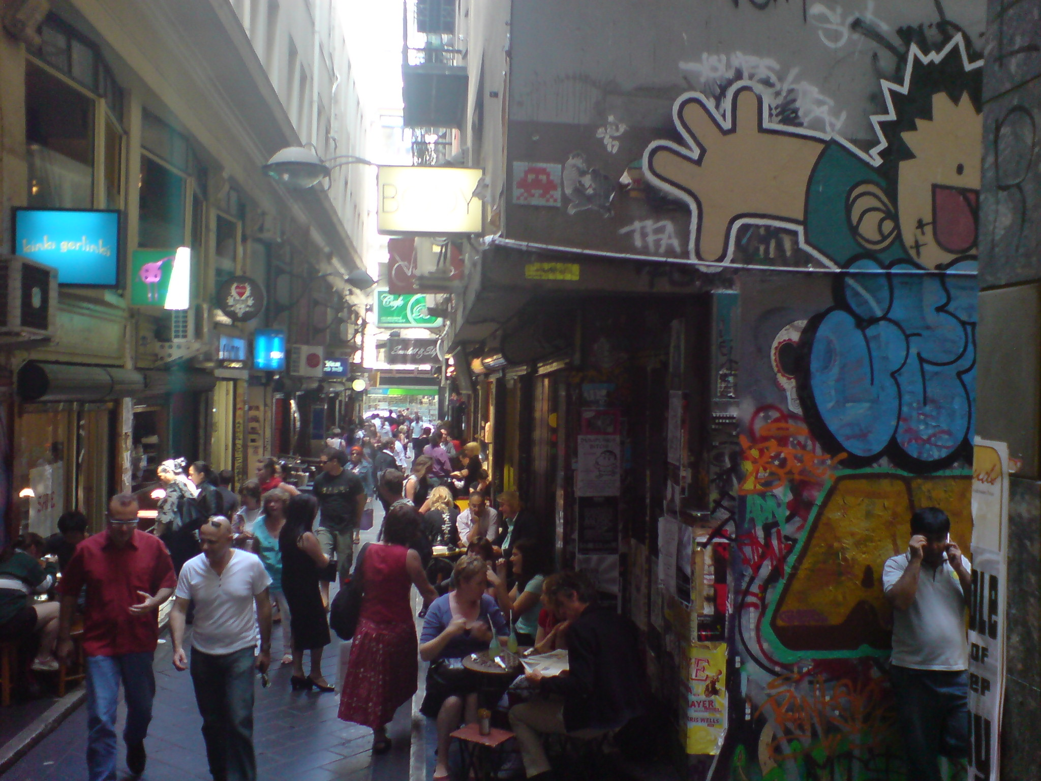 Centre Place (Funky Town) graffiti